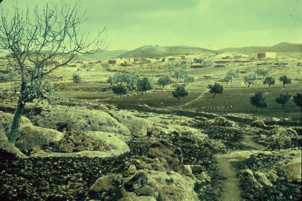 Lower Beth Horon. Date Created/Published: between 1950 and 1977.